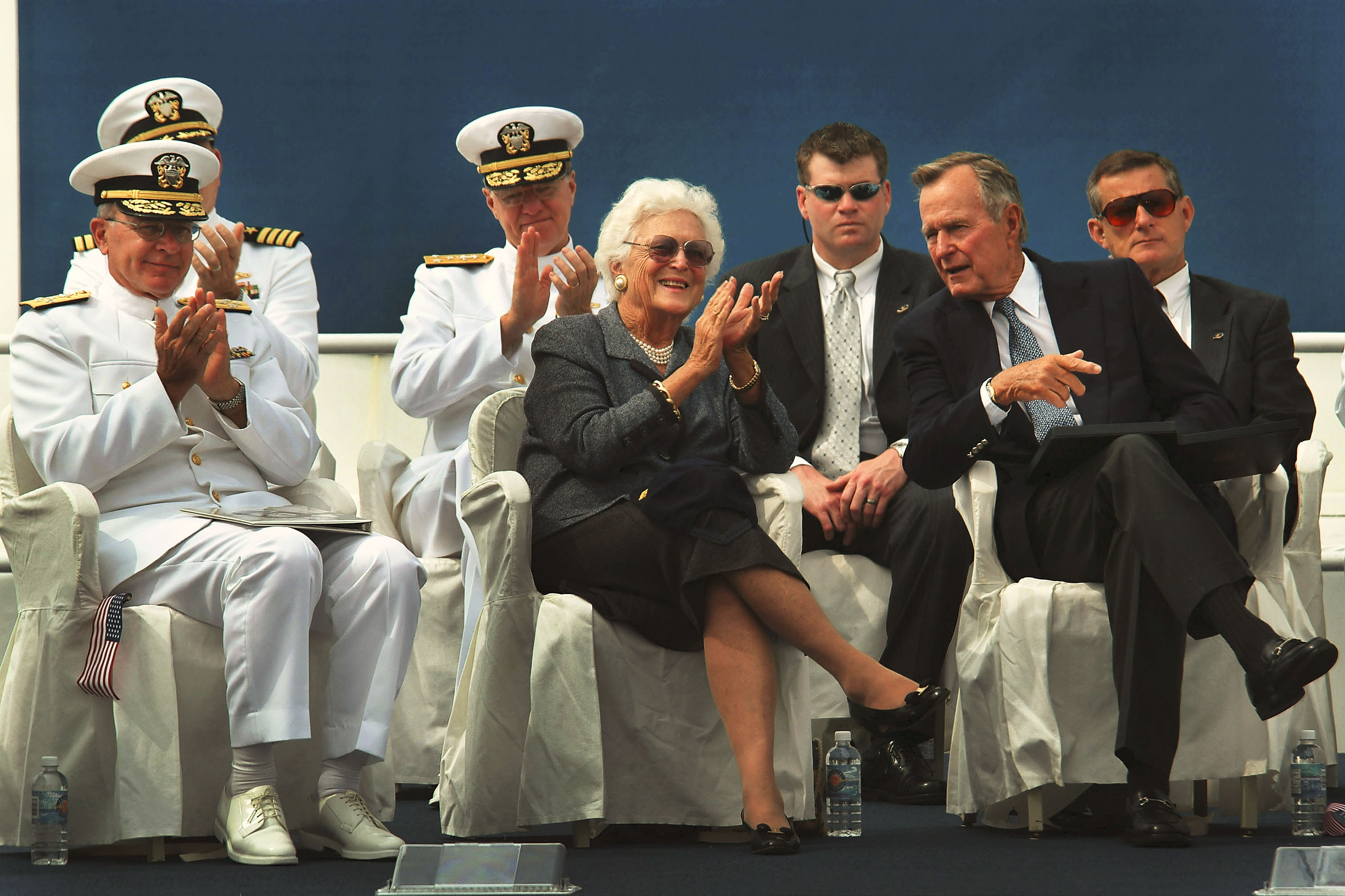 Newport News, Va. (Aug. 26, 2003) -- President George H.W. Bush and former First Lady Barbara Bush share applause with Adm. Vern Clark, Chief of Naval Operations (CNO), as they watch the Navy's parachute team "The Leapfrogs" perform during a keel laying ceremony honoring the building of the nuclear-powered aircraft carrier George H.W. Bush (CVN 77). This will be the 10th and final Nimitz-class aircraft carrier as it undergoes the first of four ceremonial traditions that will happen throughout the life of the warship. U.S. Navy photo by Chief Photographer's Mate Johnny Bivera. (RELEASED).